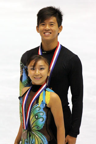 Narumi Takahashi and Mervin Tran (Jap) on the podium (3rd) at the 2009-2010 Junior Grand Prix Lake Placid